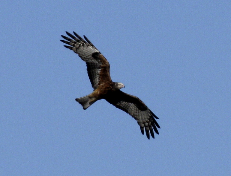 Square-tailed Kite (Lophoictinia isura) Kobble Creek, SE Queensland, Australia